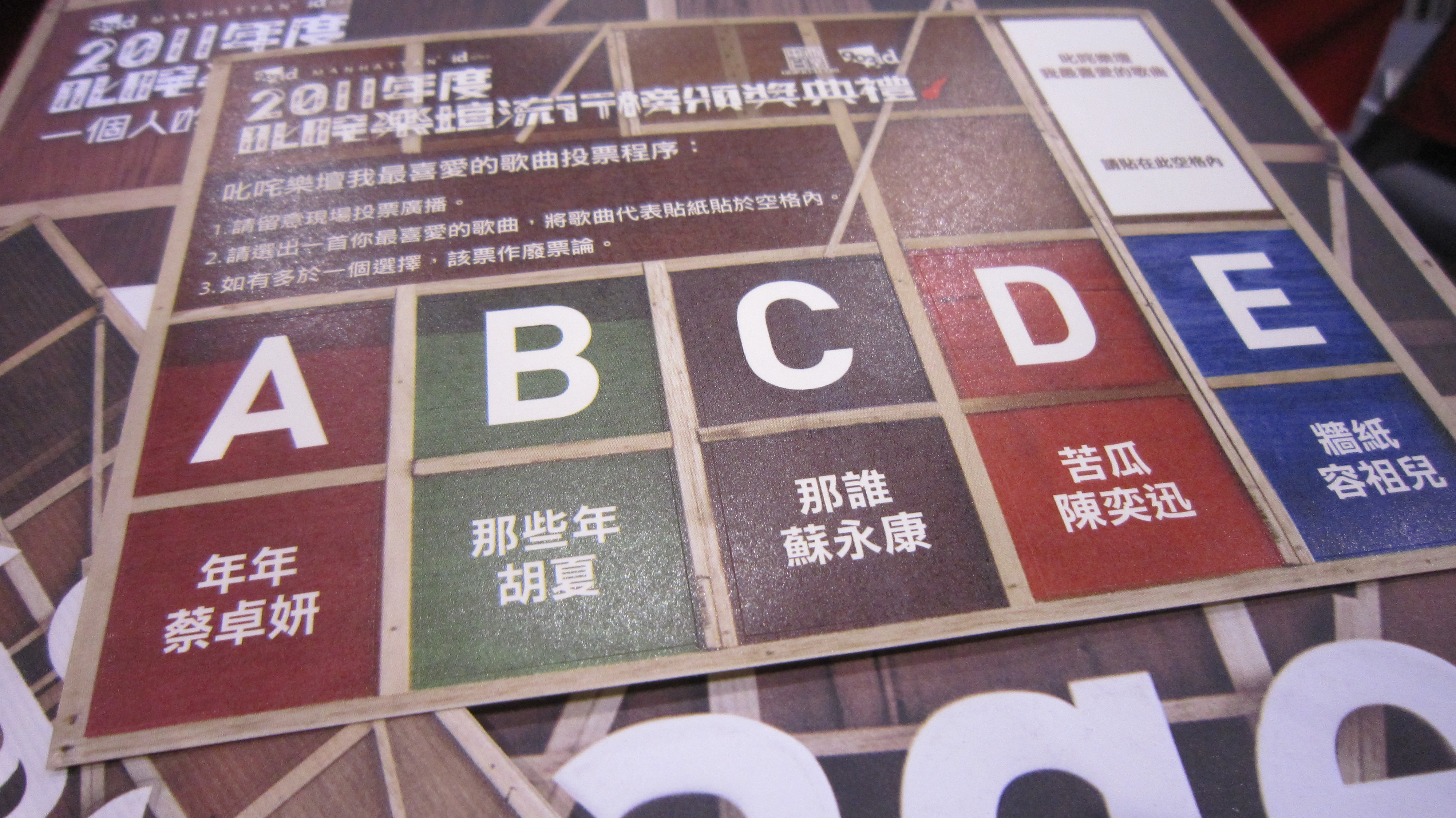 Label voting sheet of Ultimate Song Chart 2011